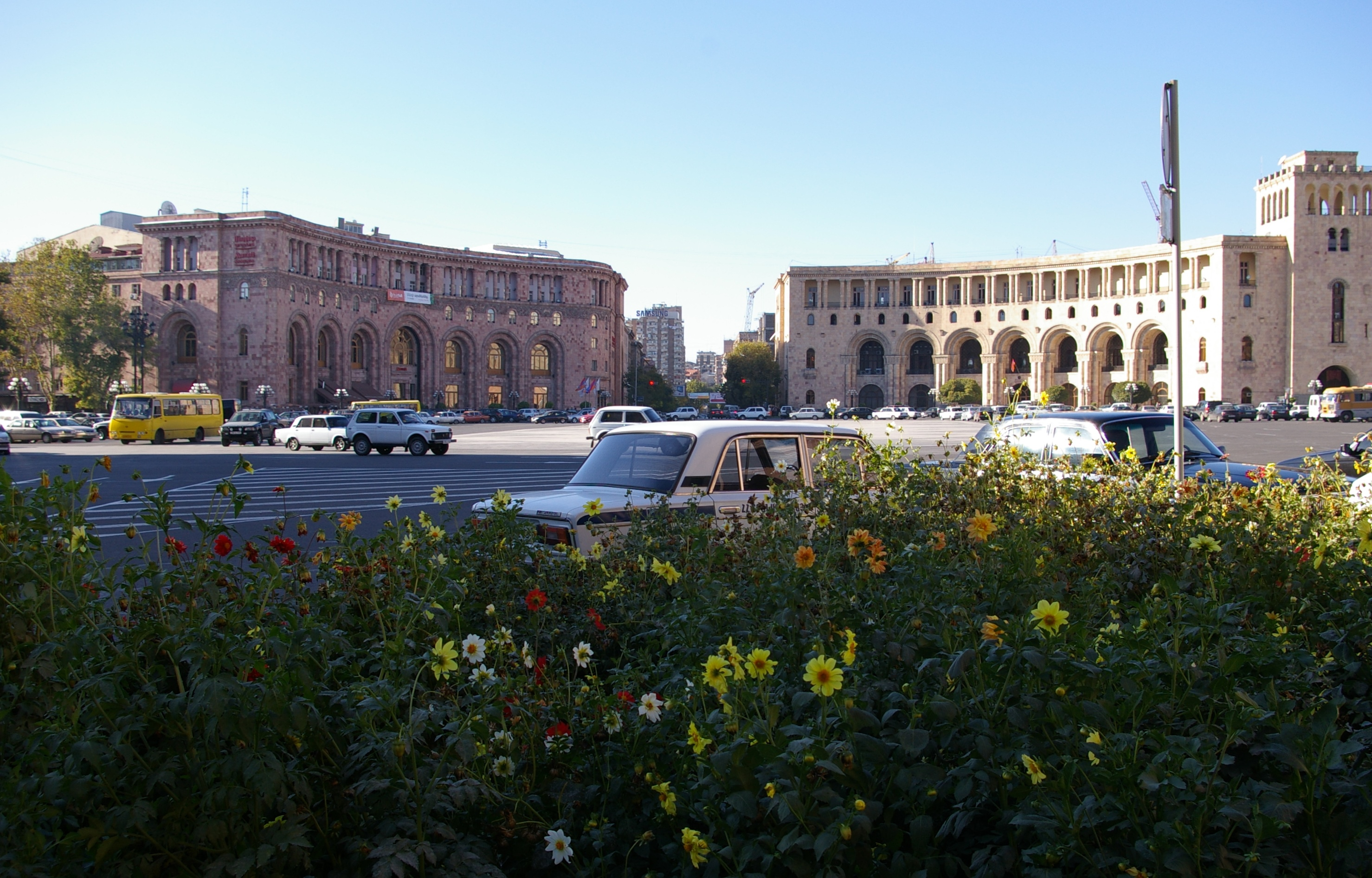 Republic Square of Yerevan